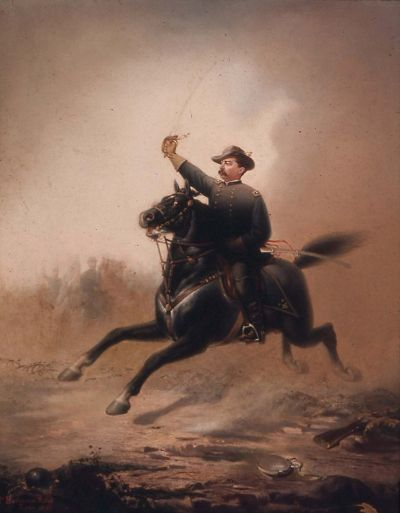 The painting "Sheridan's Ride," by Thomas Buchanan Read, oil on canvas. Courtesy of the Museum of Fine Arts, Boston.